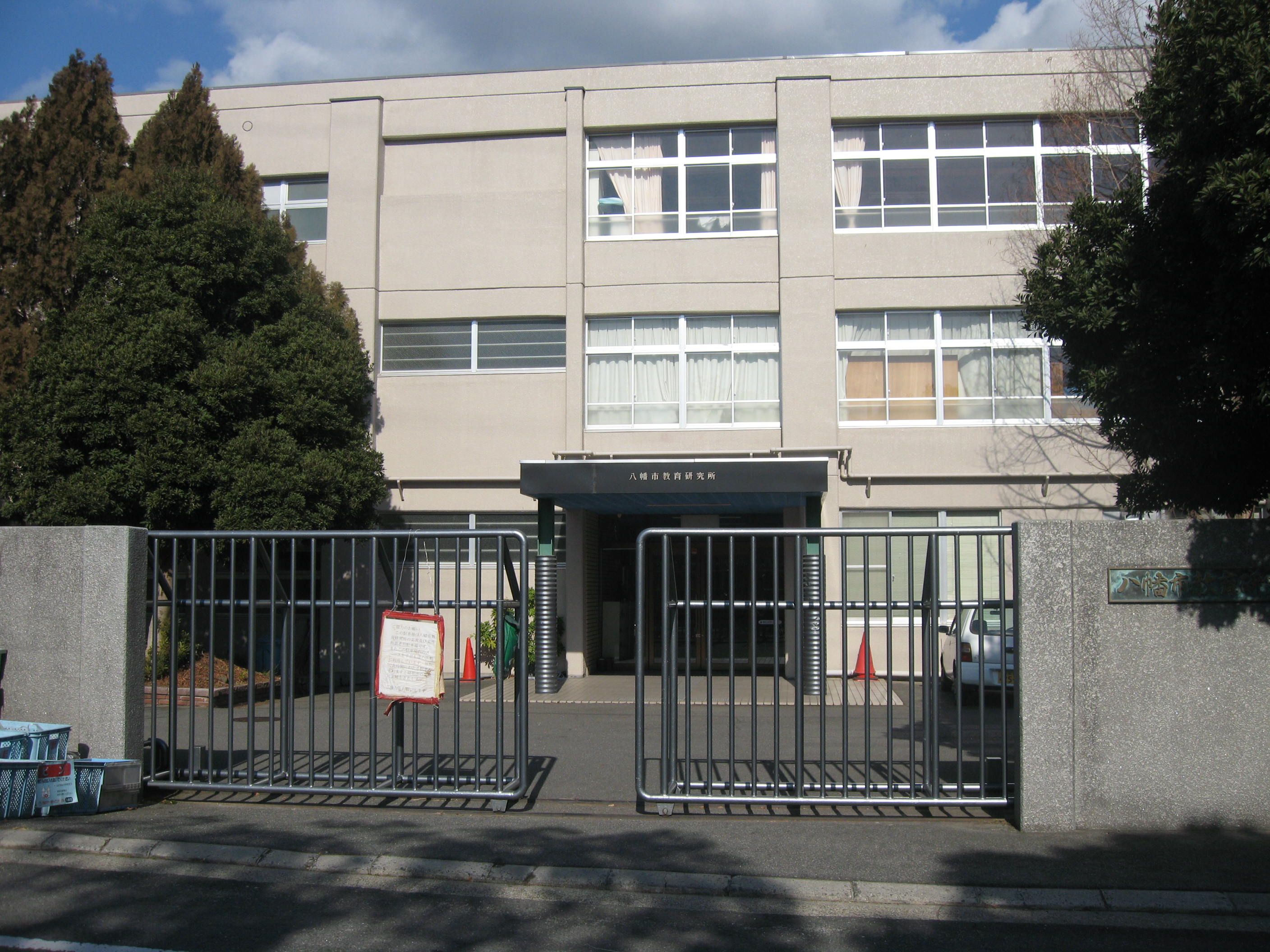 yawata-shiritsu_kyouiku-kenkyuujyo